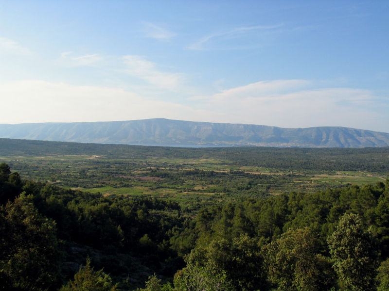 View of Stari Grad Plain from the old way between Dol and Vrbanj.